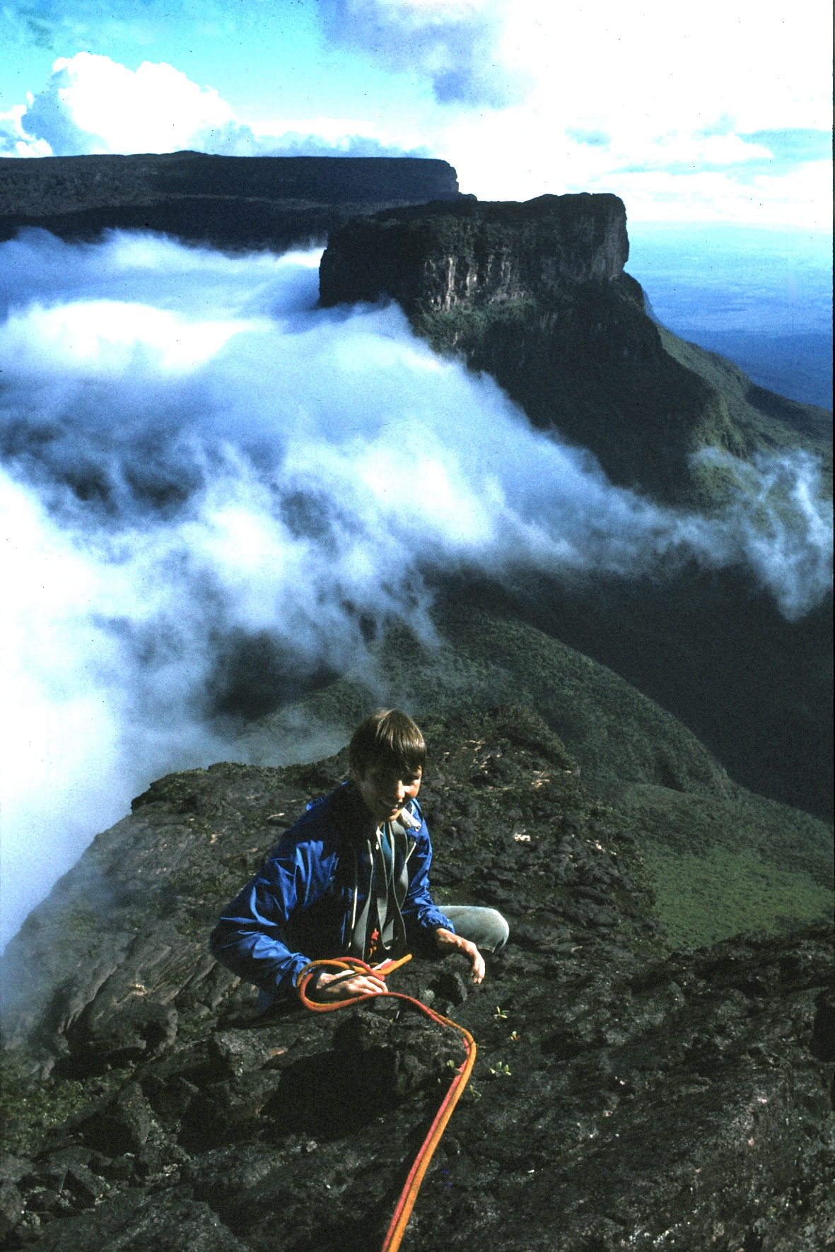 Scharlie Wraight reaching the summit of Tramen Tepui on the first ascent 24 November 1981